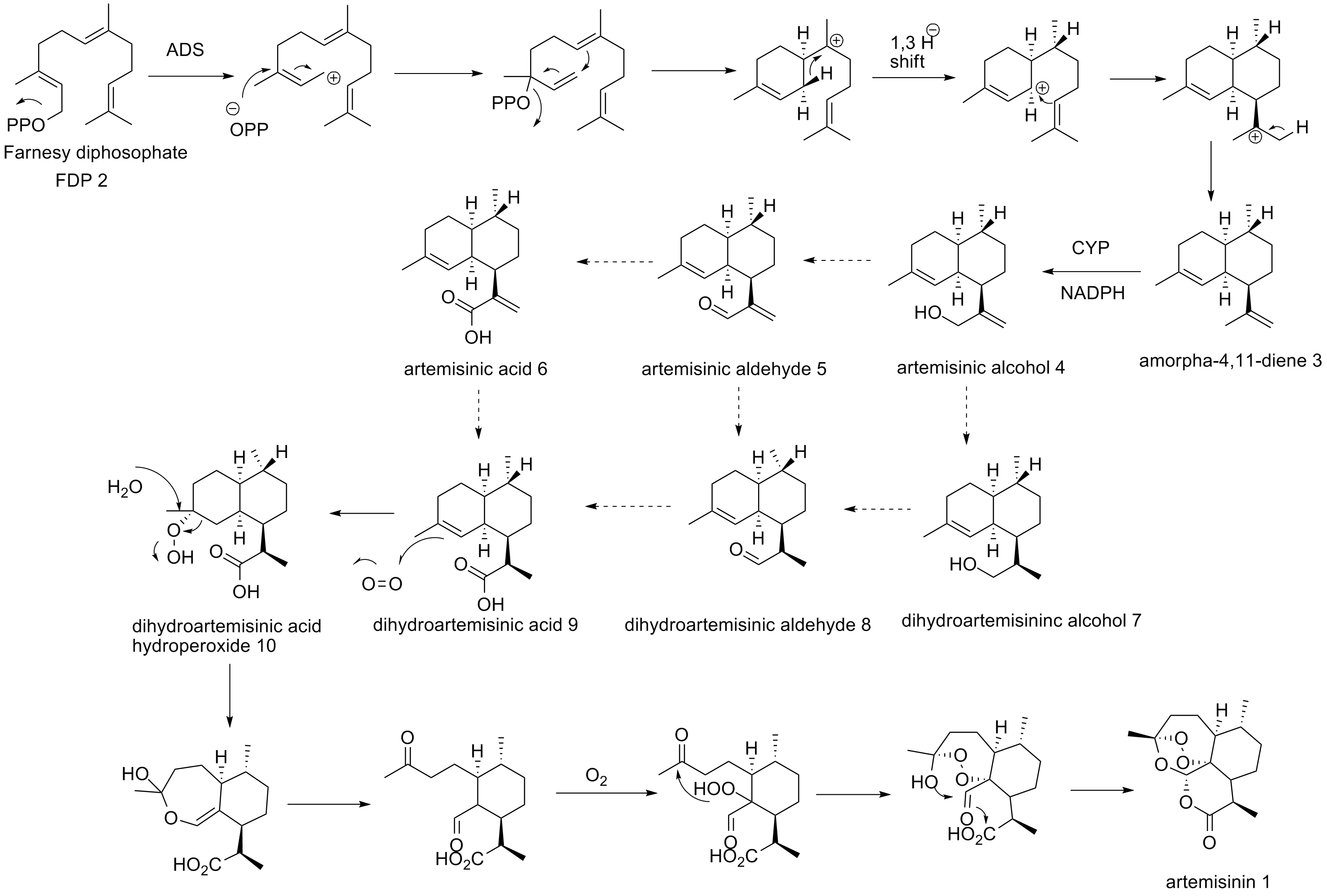 Biosynthesis of Artemisinin